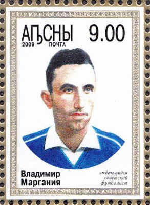 Stampsheet of Abkhazia: Legends of the Abkhazian Soccer